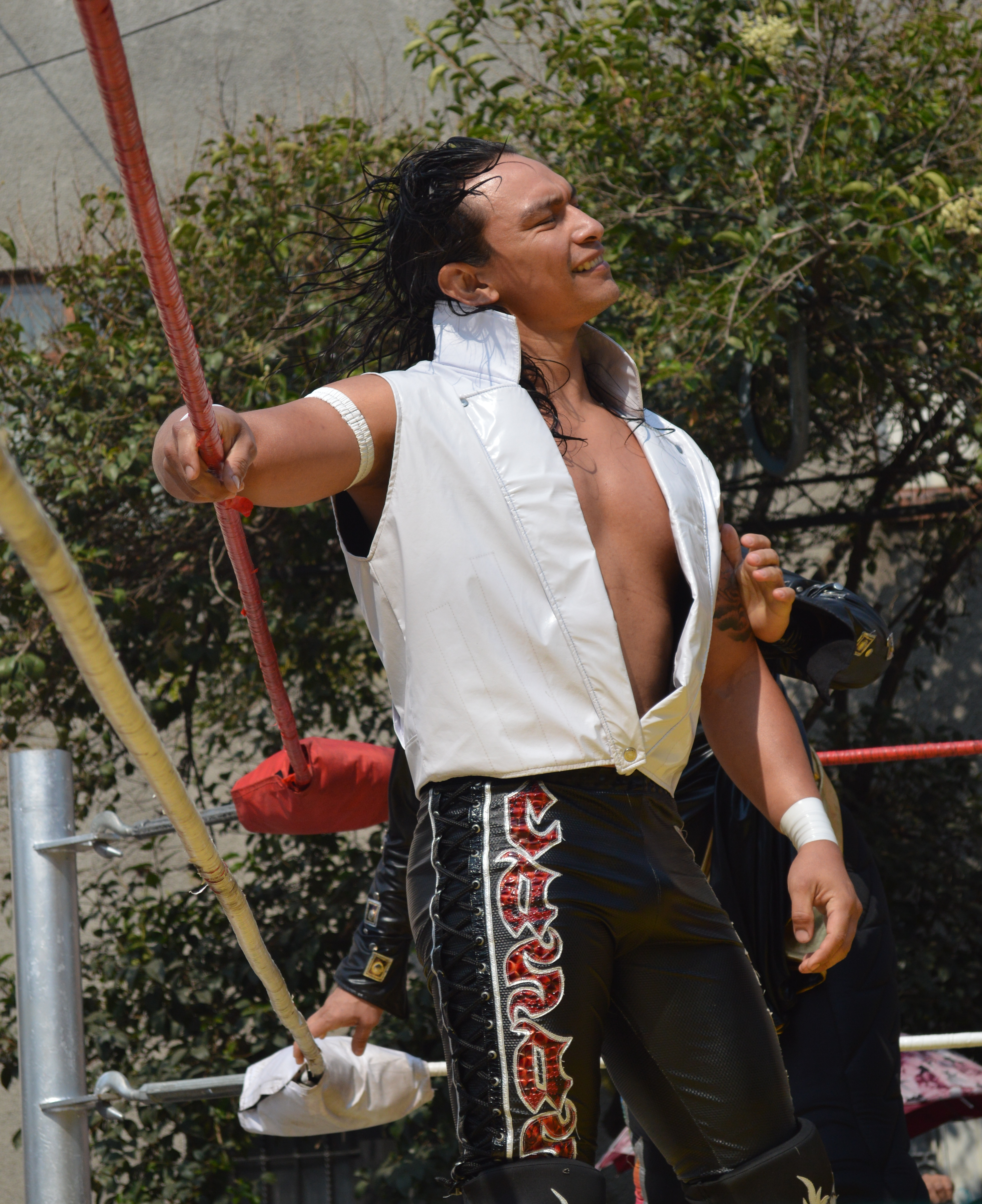 CMLL lucha libre event part of Festival Día de Reyes Territorial Obrera Doctores in Mexico City